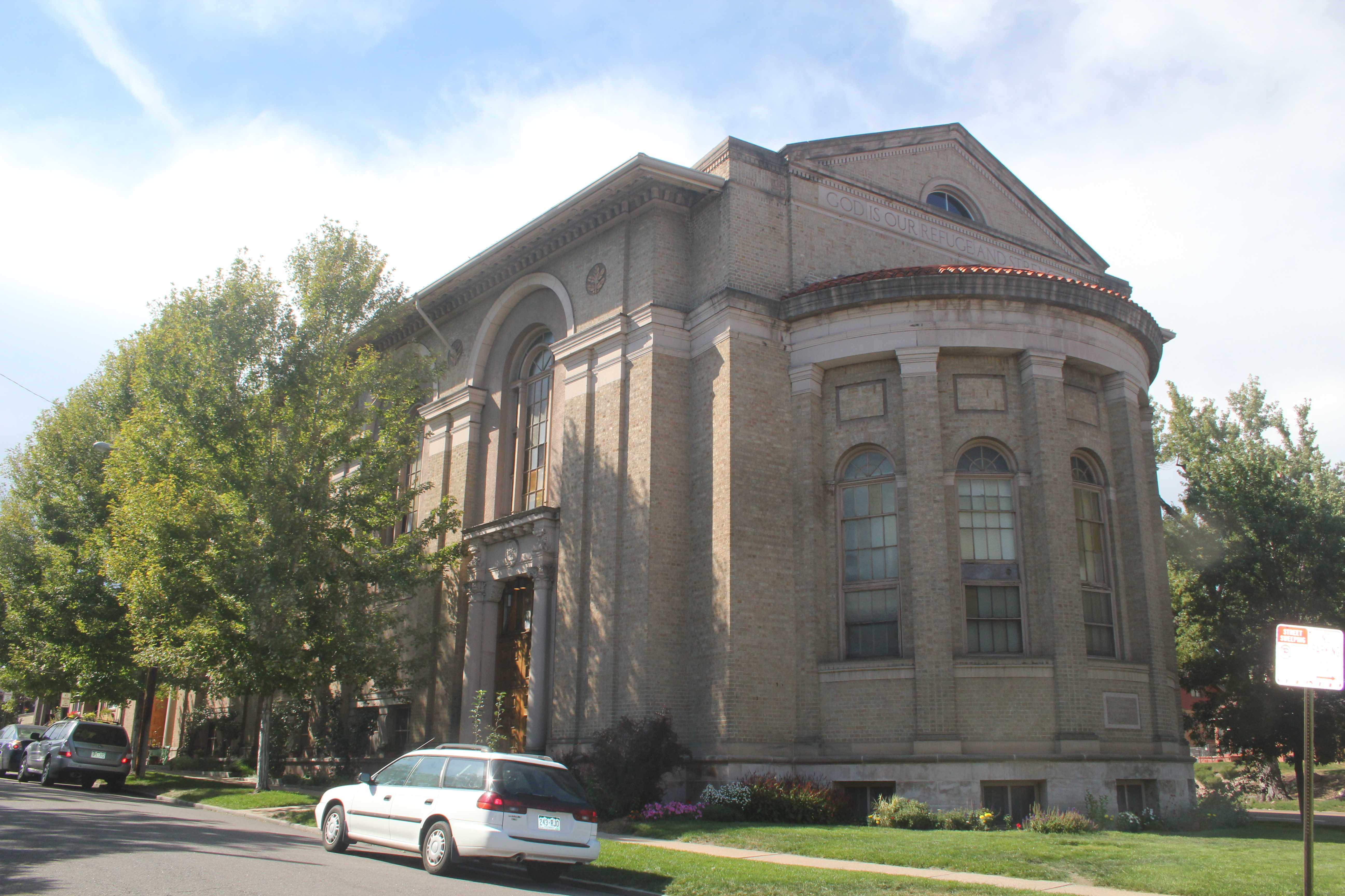 Photo of the Fourth Church of Christ Scientist located in the West Highland neighborhood of Denver CO. Built in 1920, it was designed by Merrill H. and Burnham F. Hoyt.